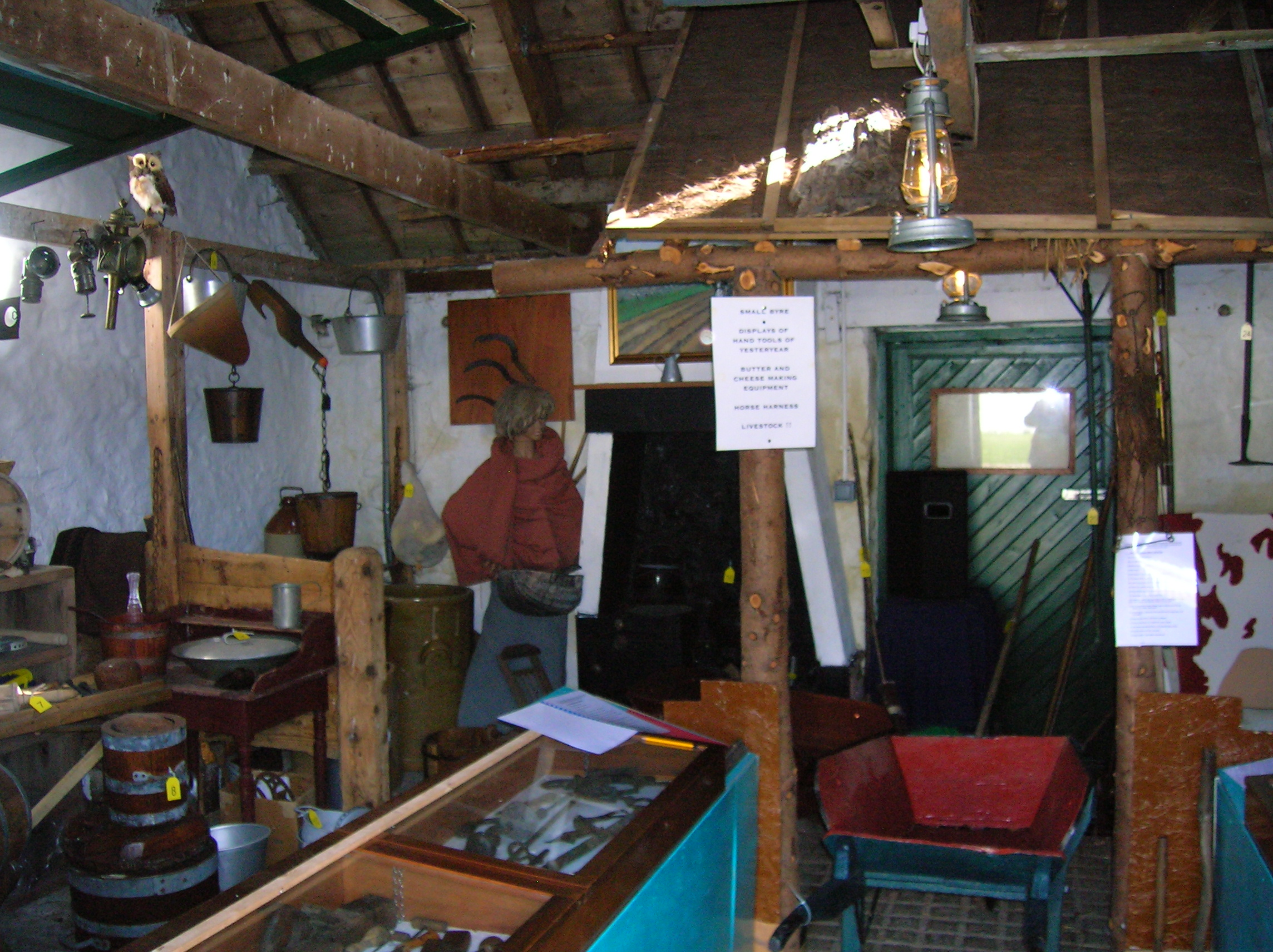 Ellisland Farm museum exhibition, Auldgirth, Scotland